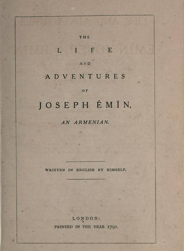 The Life and Adventures of Joseph Émïn, an Armenian